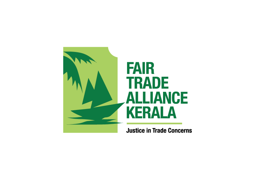 FTAK Logo